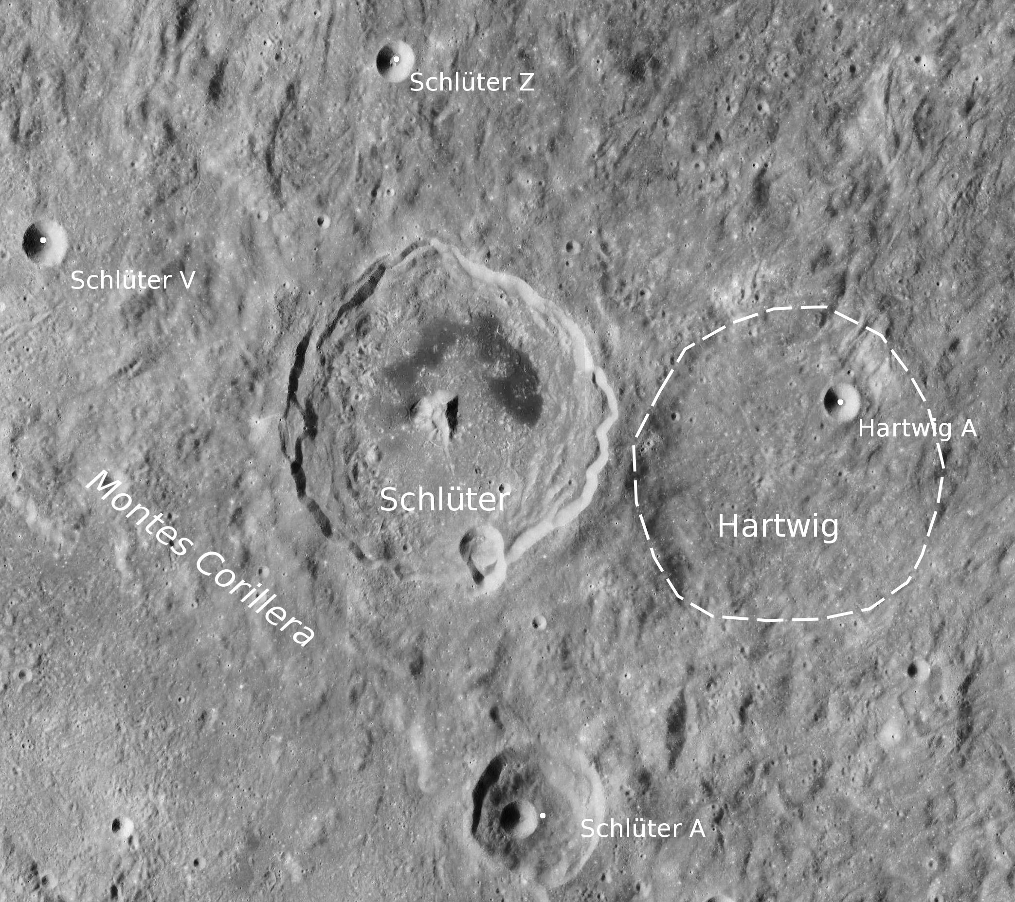 Craters Schlüter and Hartwig (detail of LRO - WAC global moon mosaic; Mercator projection)